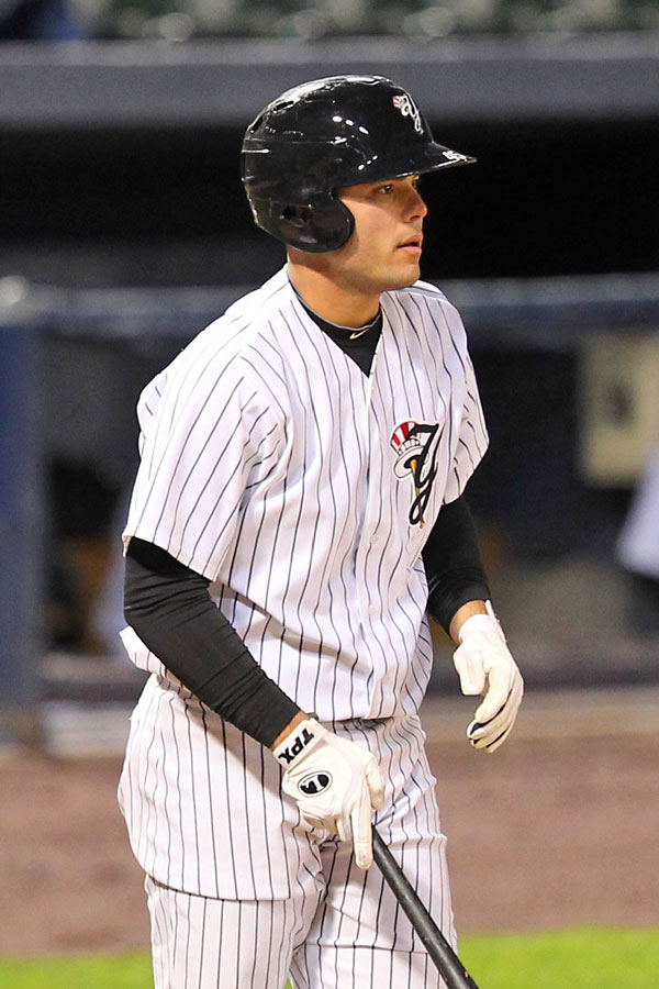 Jesús Montero